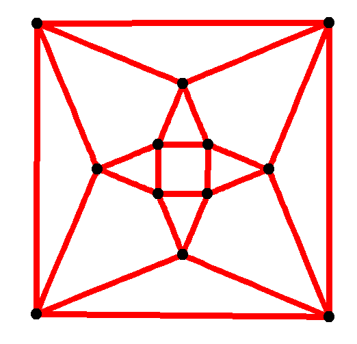 Cuboctahedral graph